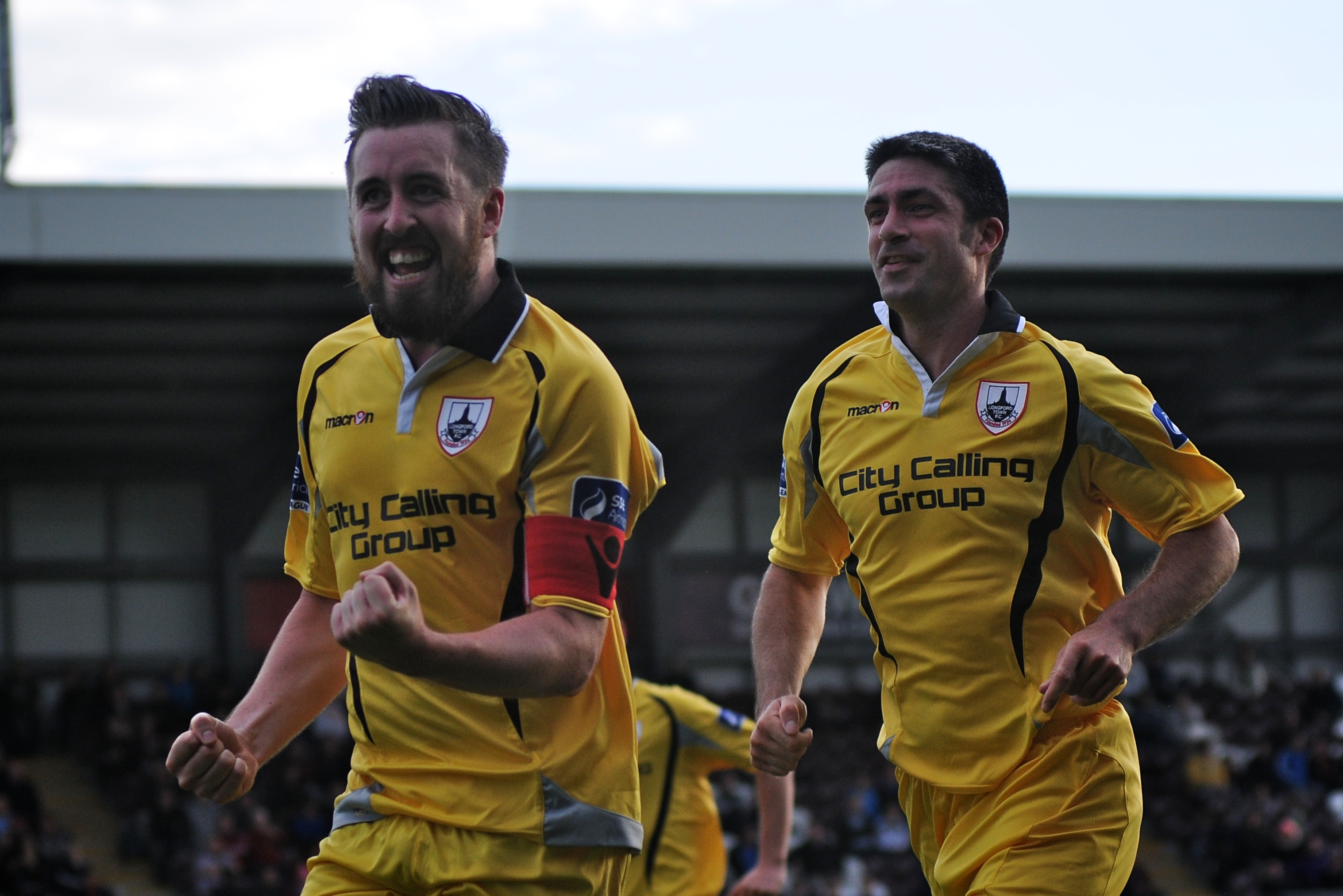 Mark Salmon of Longford Town celebrates scoring against Galway FC in the 2014 League of Ireland First Division at Eamon Deacy Park